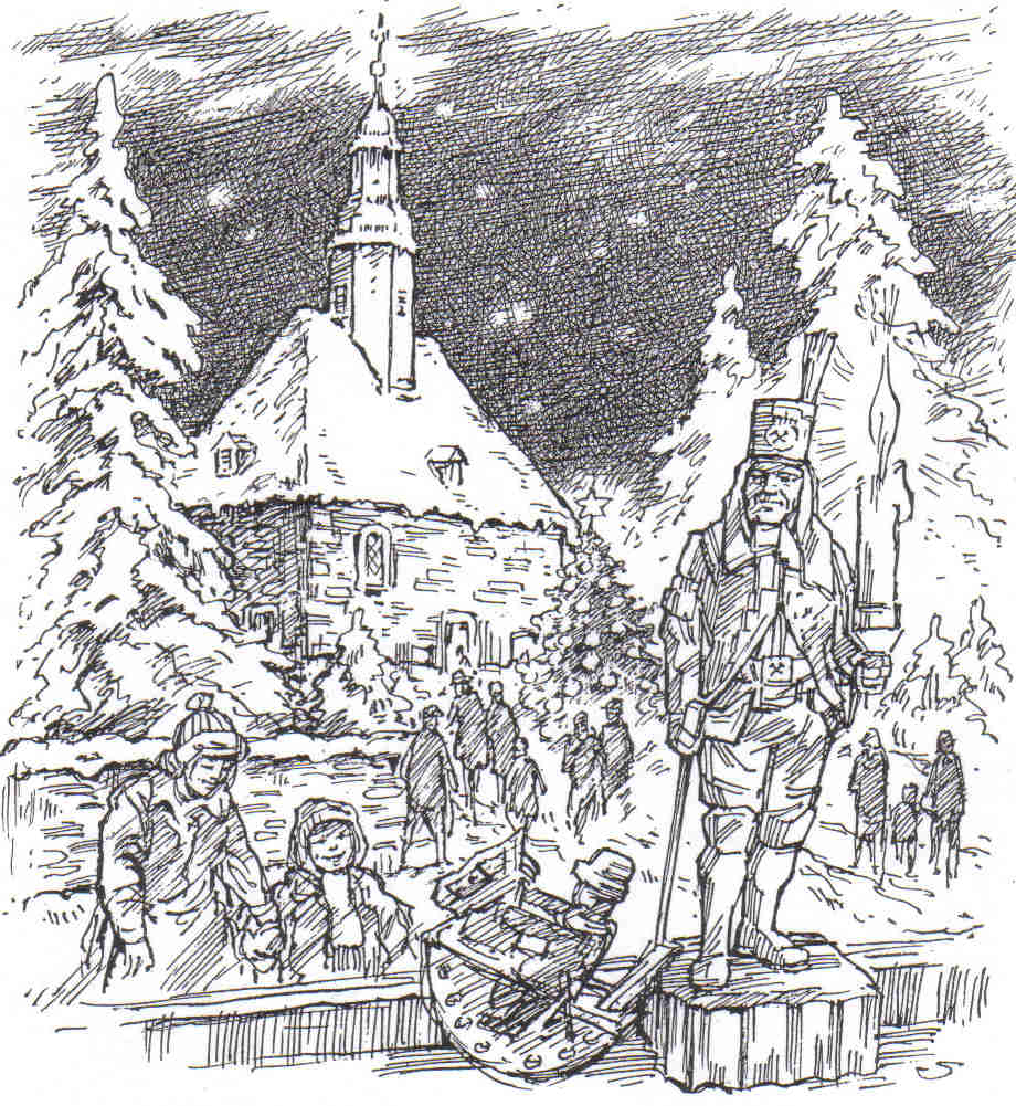 The church of the village Culitzsch